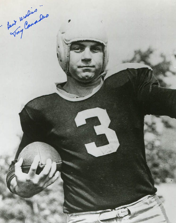 Former Green Packers' halfback Tony Canadeo while playing for the team.